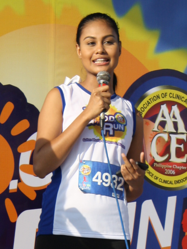 Venus Raj at "The GOOD Run" event in Bonifacio Global City, Taguig, Metro Manila, Philippines.